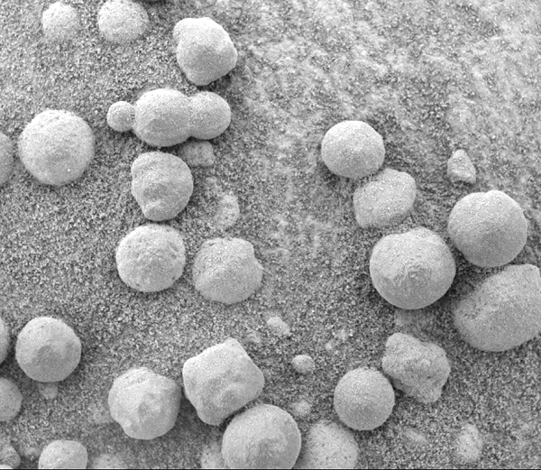 "Blueberries" (Hematite Spheres) at Eagle Crater on Mars. Microscopic Imager Non-linearized Full frame EDR acquired on Sol 46 of Opportunity's mission to Meridiani Planum at approximately at approximately 11:35:50 Mars local solar time, Microscopic Imager dust cover commanded to be OPEN.